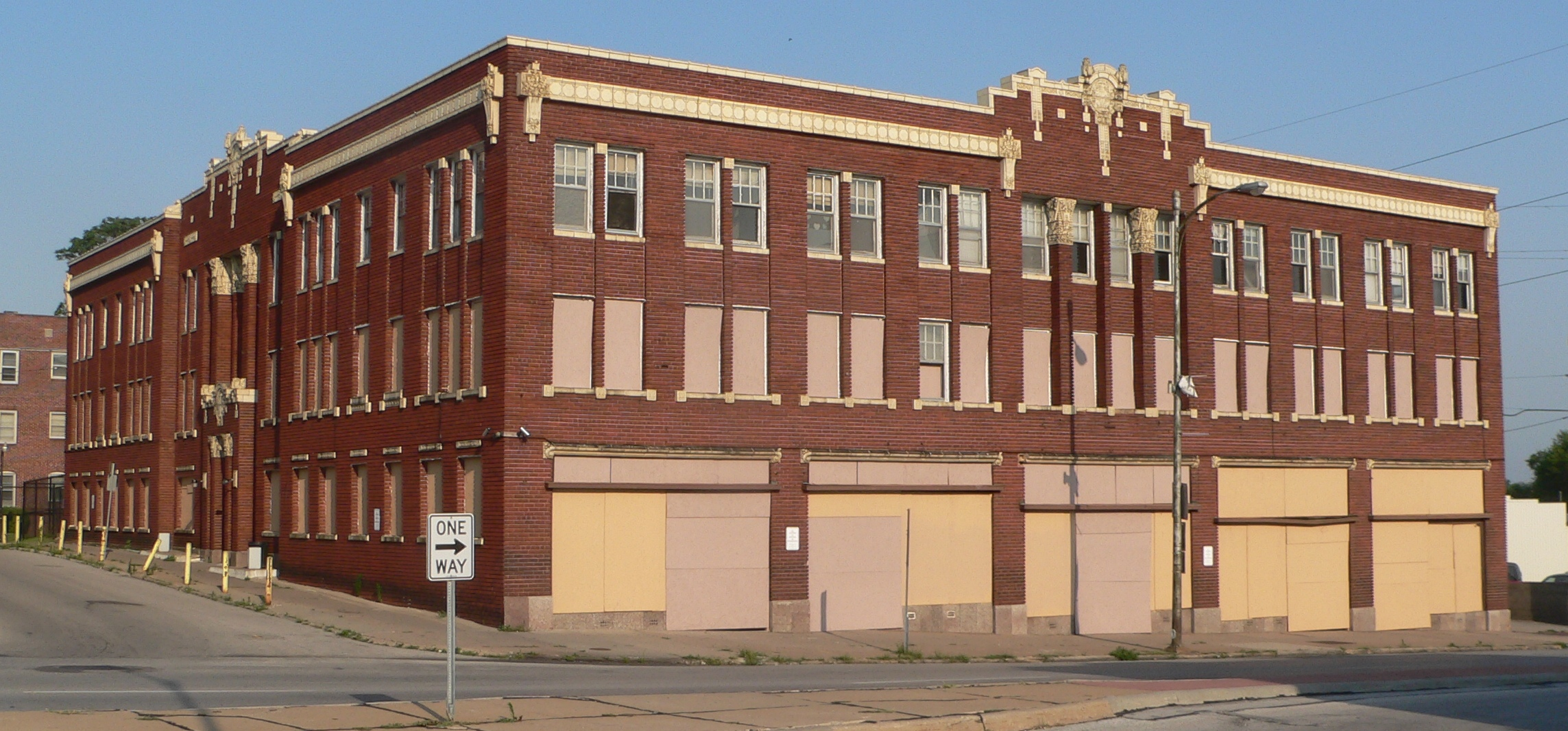 Anderson Building, located at southeast corner of 24th and Jones Streets in Omaha, Nebraska; seen from the northwest. The west side faces 24th; the north side, Jones.